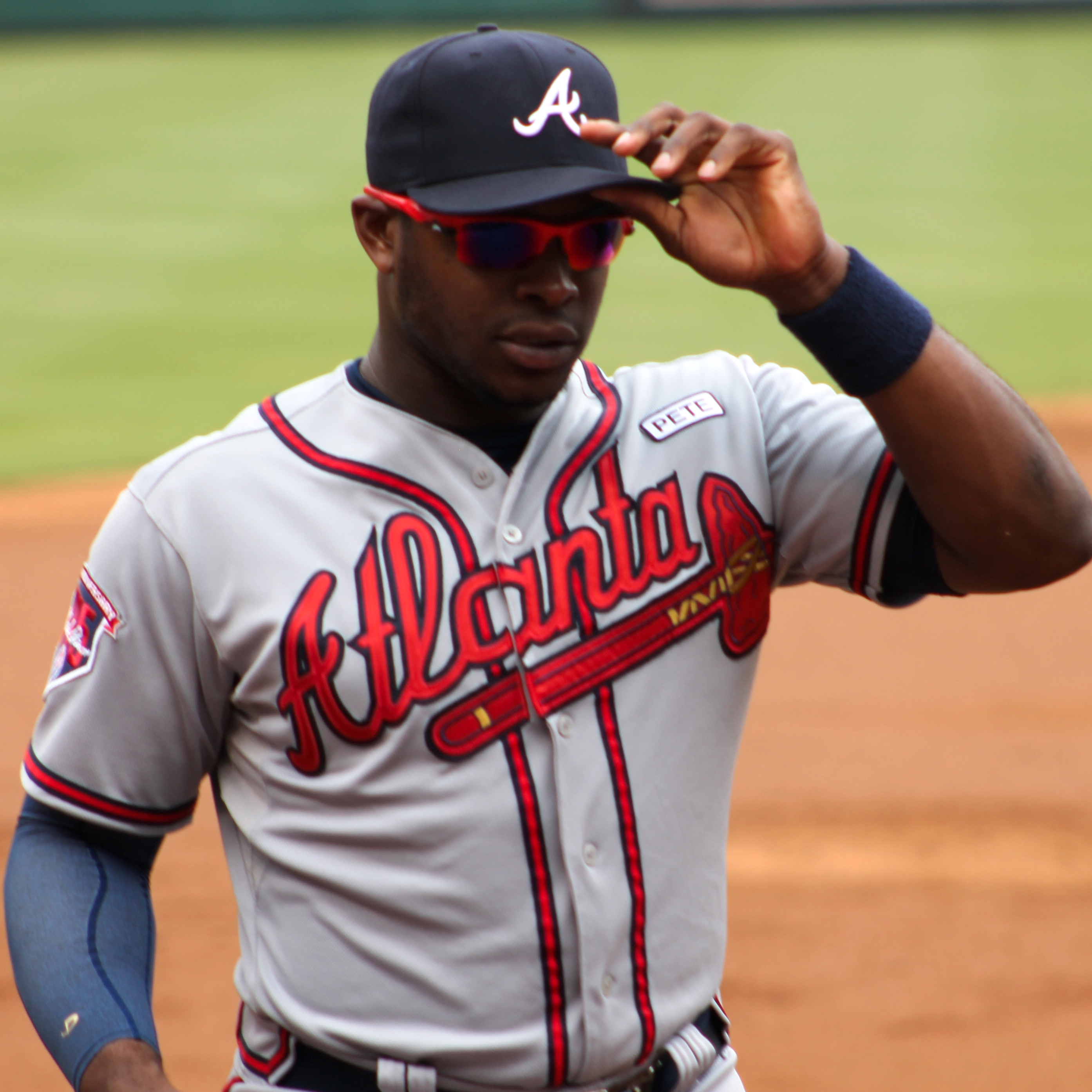 Professional baseball player Justin Upton during a September 2014 game in Texas.